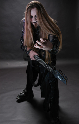 promo shoot picture for endorsement deal, i am the person deopicted and own the copyright and give it to the public domain